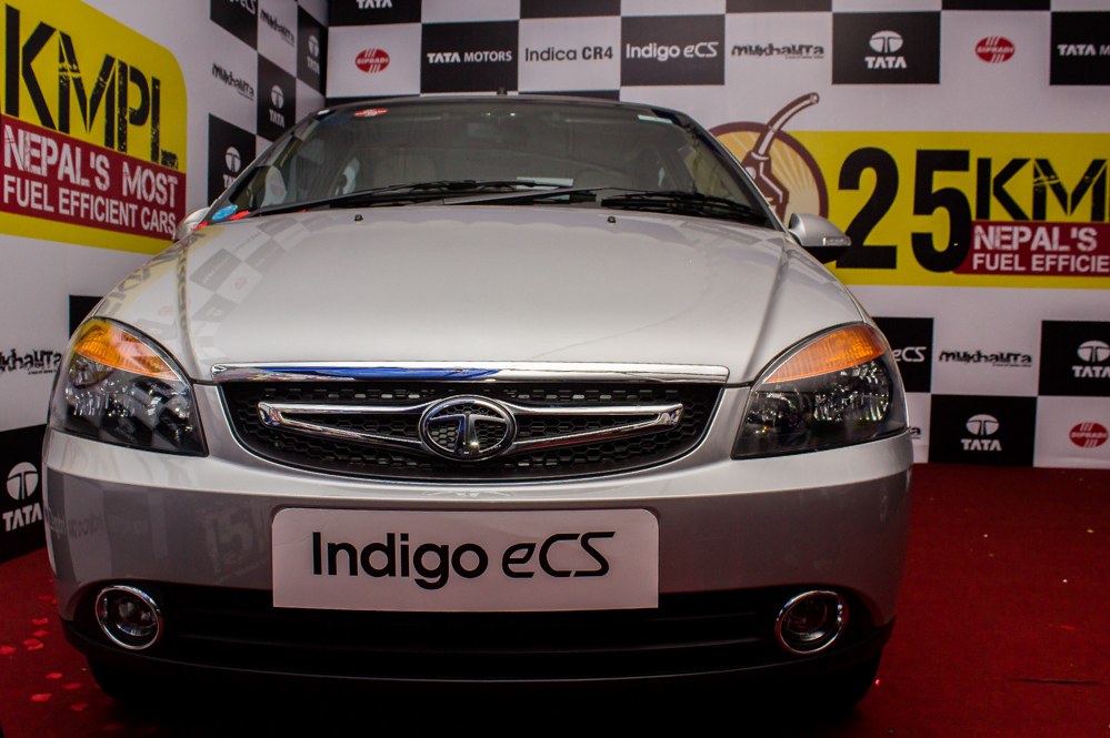 Tata Indigo eCS release at Nepal in June 2014.